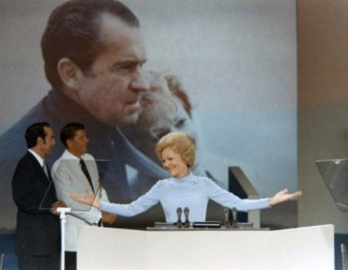 First Lady Pat Nixon addresses delegates at the 1972 Republican National Convention, Miami, Florida. Behind her are Senator Bob Dole of Kansas and Governor Ronald Reagan of California. Pat Nixon was the first First Lady since Eleanor Roosevelt to address a party convention, and the first Republican First Lady to do so.